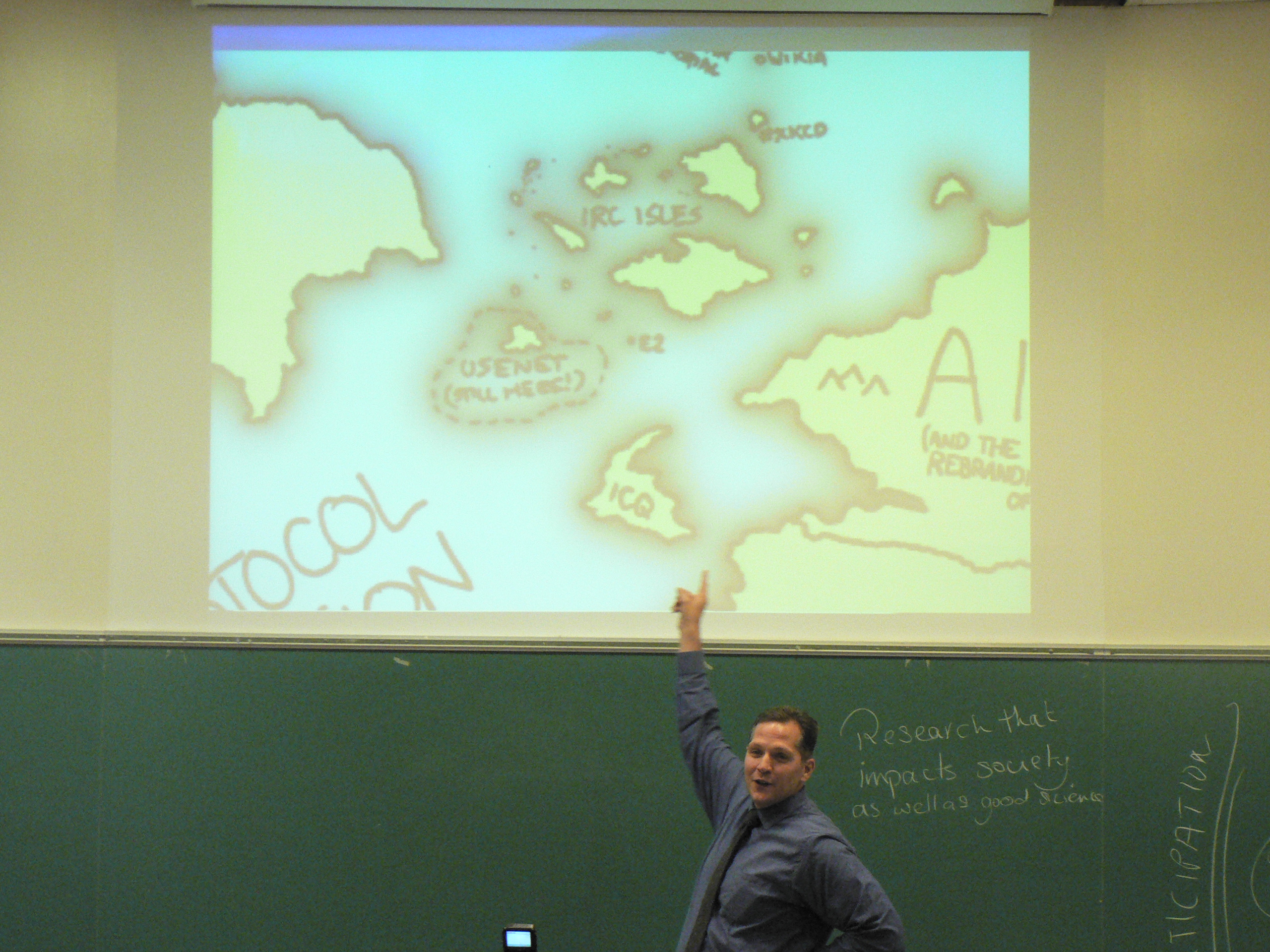 Cliff Lampe pointing to the Internet as a Map at Webshop 2011 held August 23-26, 2011 at the University of Maryland.